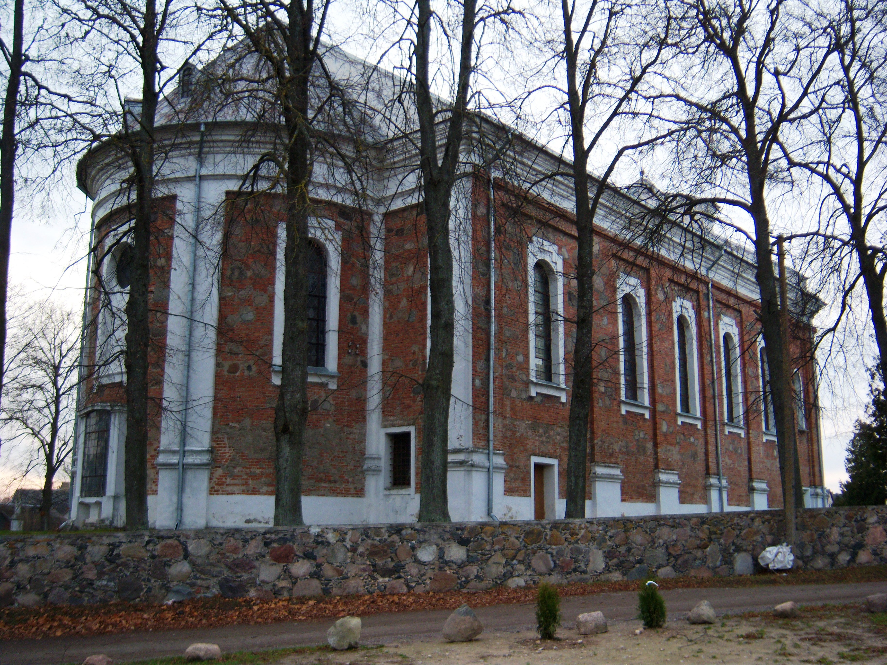 Roman Church in Pumpėnai, Pasvalys District, Lithuania